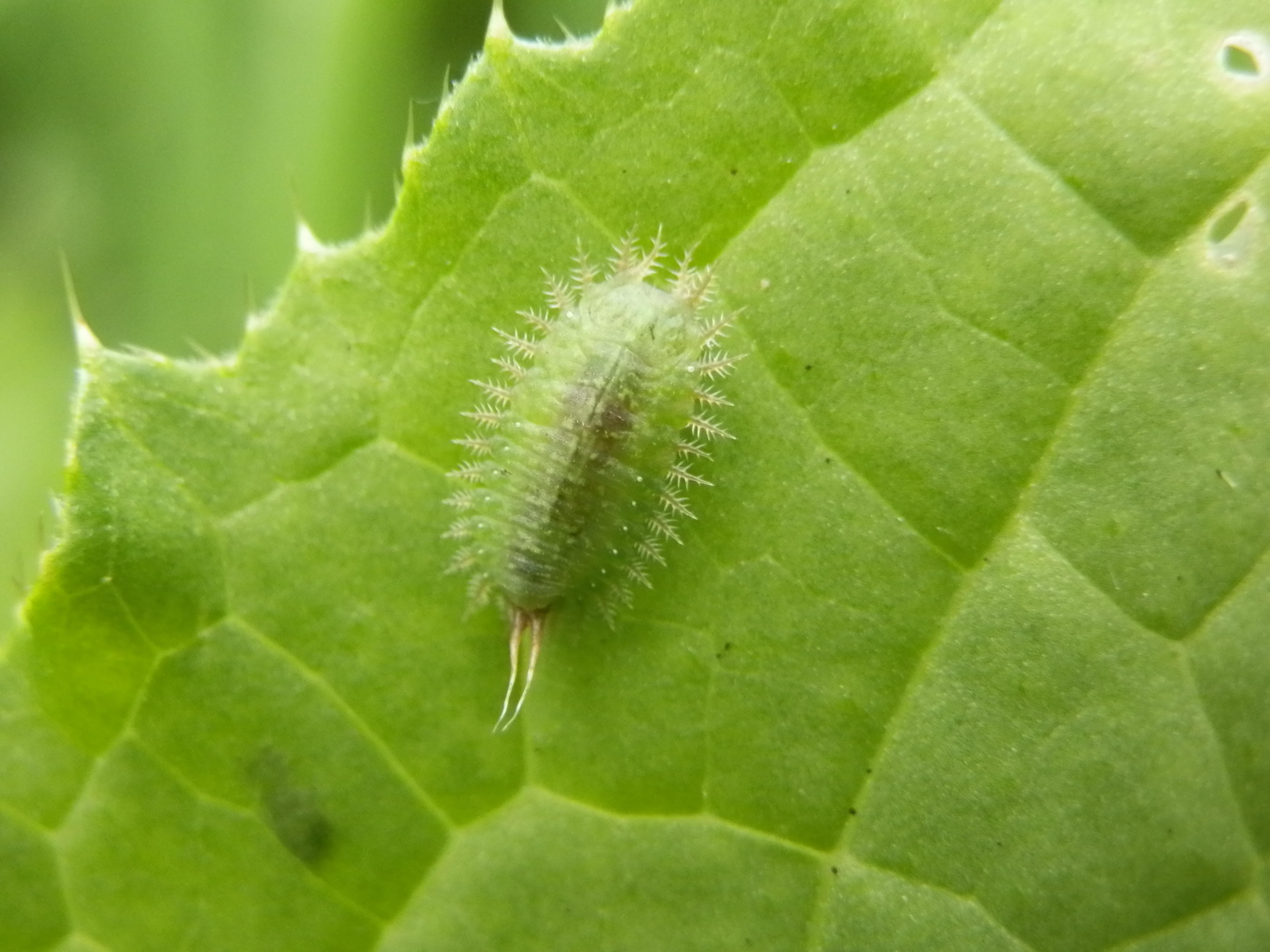 This is a Larva of an Cassida rubiginosa bug